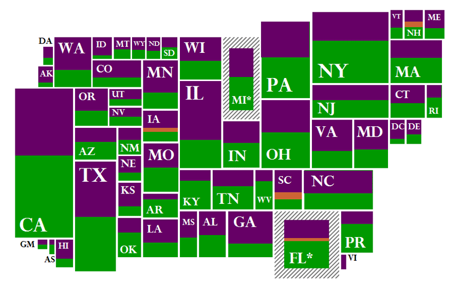 Cartogram of the pledged delegate count in the 2008 Democratic presidential primaries (United States). Data from the this wiki article. Purple for Obama, green for Clinton, orange for Edwards, grey for delegates unassigned. Last updated 4/24/08. States arranged geographically. See alternate arrangement below. NOTE: This cartogram is intended to reflect "election results." It reflects delegate changes that occur in states where delegates are selected through multiple events (e.g. Iowa) but not delegate changes that have occurred in other states where bound delegates have indicated an intention to vote otherwise at the convention (e.g. New Hampshire).